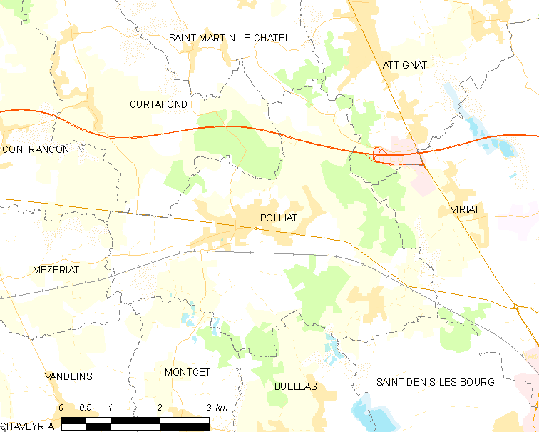 Map of French commune: Polliat Map commune FR insee code 01301.png